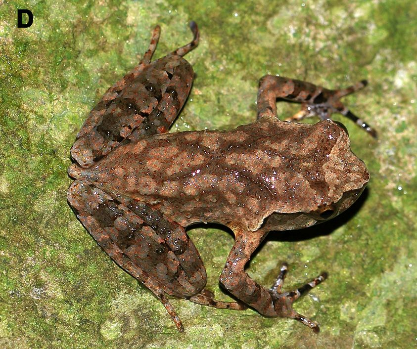 Megophrys cheni, female paratype, Figure 6D from Wang, Y. et al. Morphology, molecular genetics, and bioacoustics support two new sympatric Xenophrys toads (Amphibia: Anura: Megophryidae) in Southeast China. PLoS ONE 9, e93075 (2014)